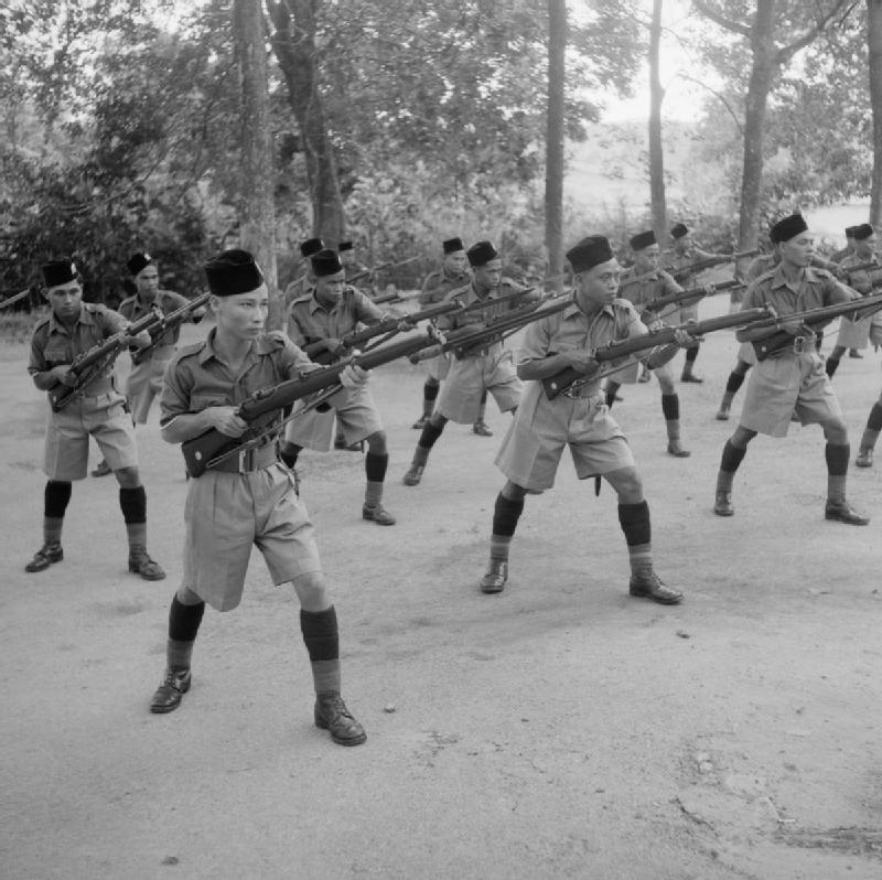 Men of the Malay Regiment, recruited from local native volunteers, at bayonet practice on Singapore Island.